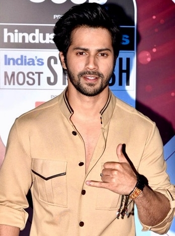 Varun Dhawan graces the HT Style Awards 2018.